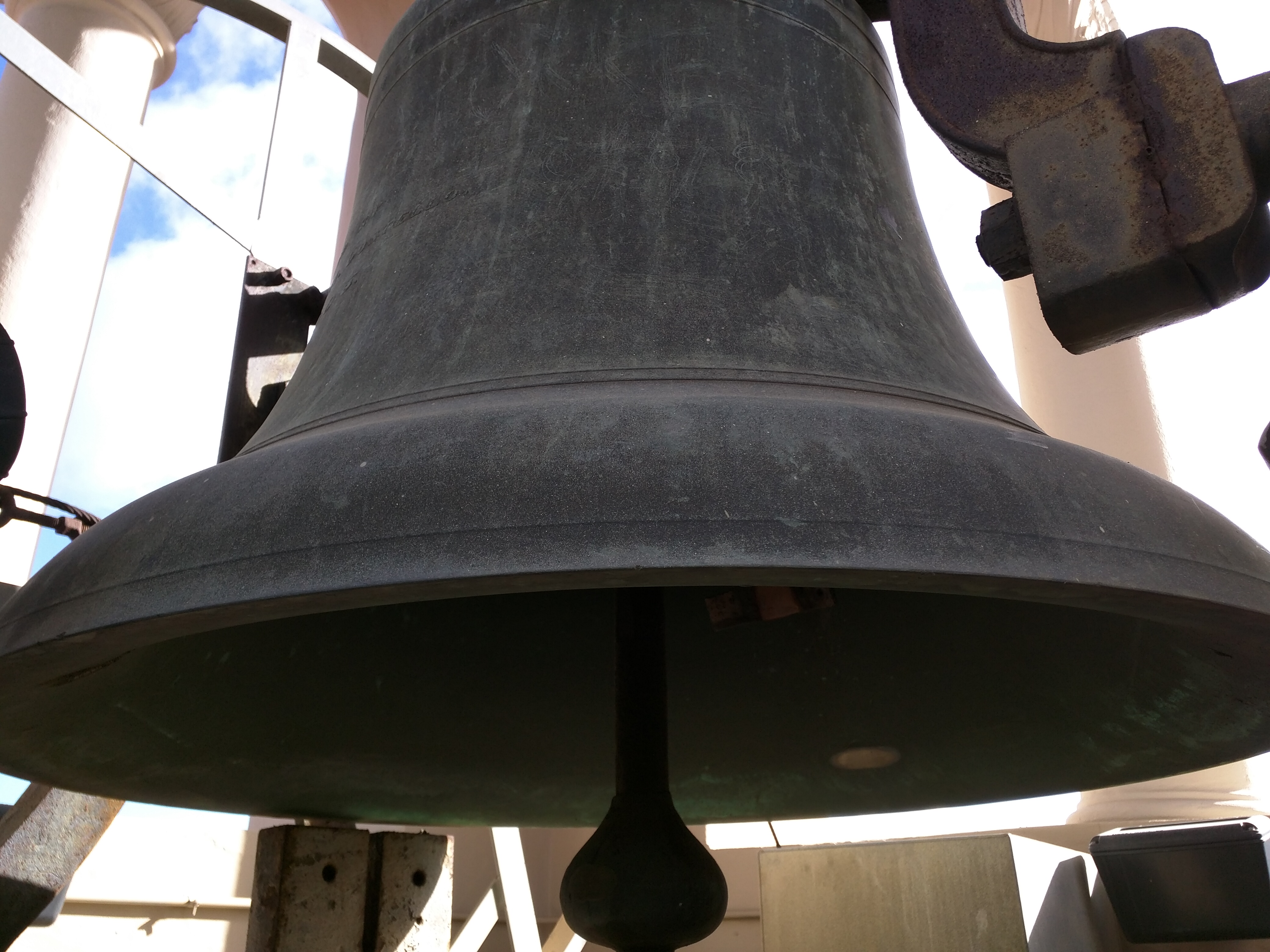 The 42" 1,320 lbs. tower bell of Saint Joseph Roman Catholic Church in Mountain View, California